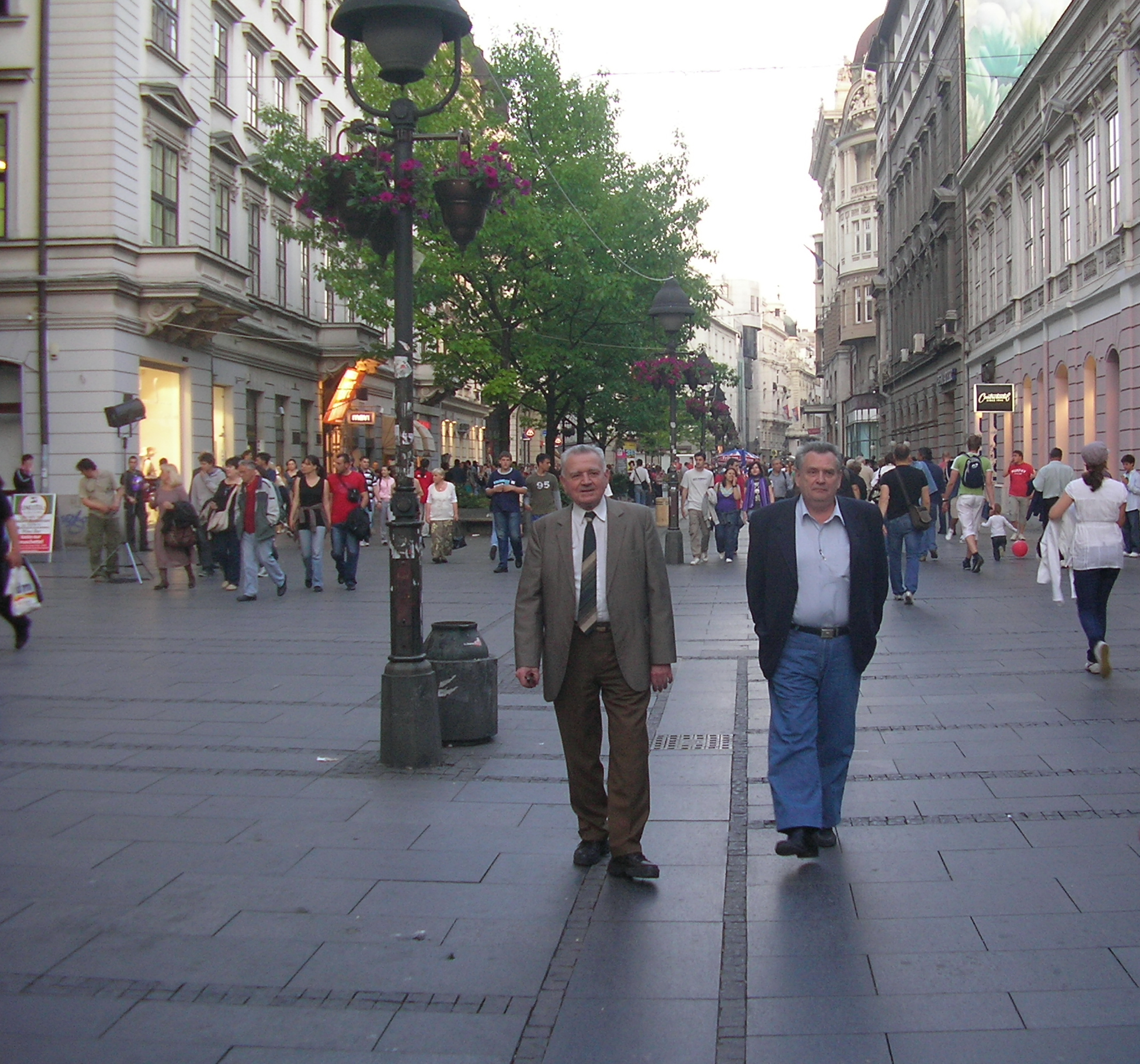 Prof. dr Ivan Aničin (viewer's right) and prof. dr Đuro Krmpotić (viewer's left) - Nuclear Physicists - Institute for Nuclear Sciences Vinča, Faculty of Physics University of Belgrade, and Institute of Physics Belgrade. Professor Krmpotić was professor to professor Aničin, when professor Aničin was a student. Picture taken during the filming about nuclear projects in Socialist Federative Republic of Yugoslavia.